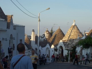 Trulli Houses in Alberobello